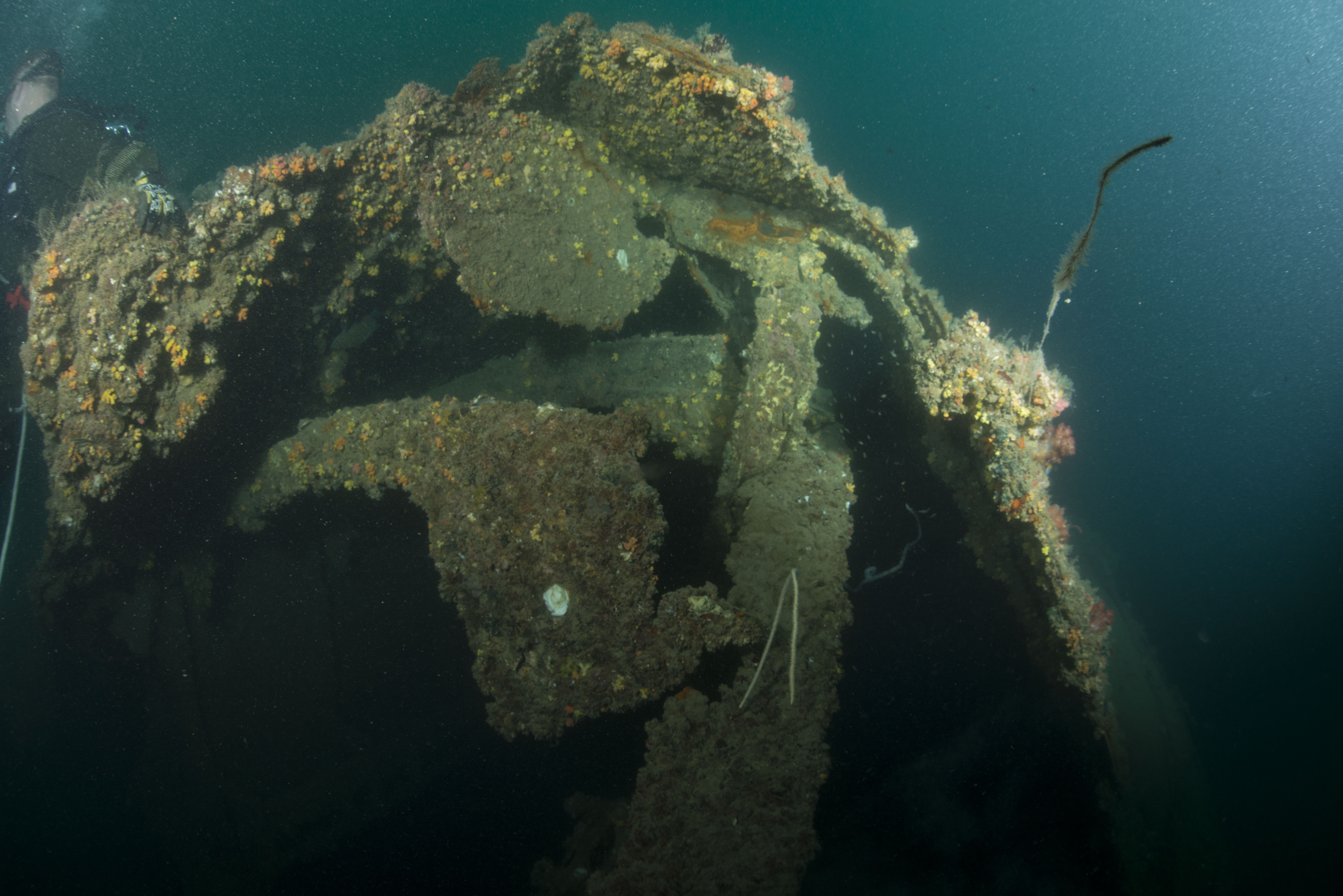 U.S. Navy divers assigned to Explosive Ordnance Disposal Mobile Unit 11, Mobile Diving Salvage (MDS) 11-7, survey HMAS Perth (D29) during dive operations held in support of search and survey operations of the sunken World War II navy vessels USS Houston (CA-30) and Perth. The data collected by the dive exercise will help the U.S. embassy in Indonesia and Naval Historical Heritage Command catalog the current state of the wrecks. Both cruisers were sunk in the Battle of Sunda Strait in Banten Bay, Indonesia, on 1 March 1942.